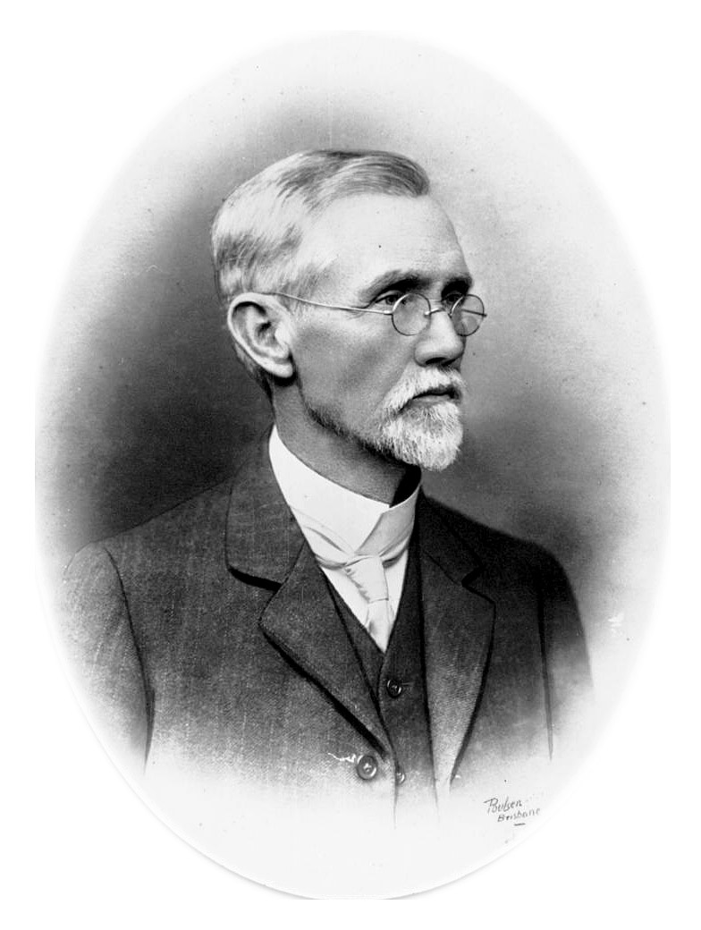 Robert Martin Collins was born in Sydney (Australia),17 December 1843 and died 18 August 1913. He married Arabella Boles Smyth in Ireland and when they returned to Queensland, they lived at Tamrookum in the Beaudesert area. (from Library description) Robert was the eldest son of John and Anne Collins, who were pioneers of the Mundoolun area in Queensland. He represented Albert in the Queensland Government Legislative Assembly in 1896-98, and was one of the founders of the National Park system in Queensland.